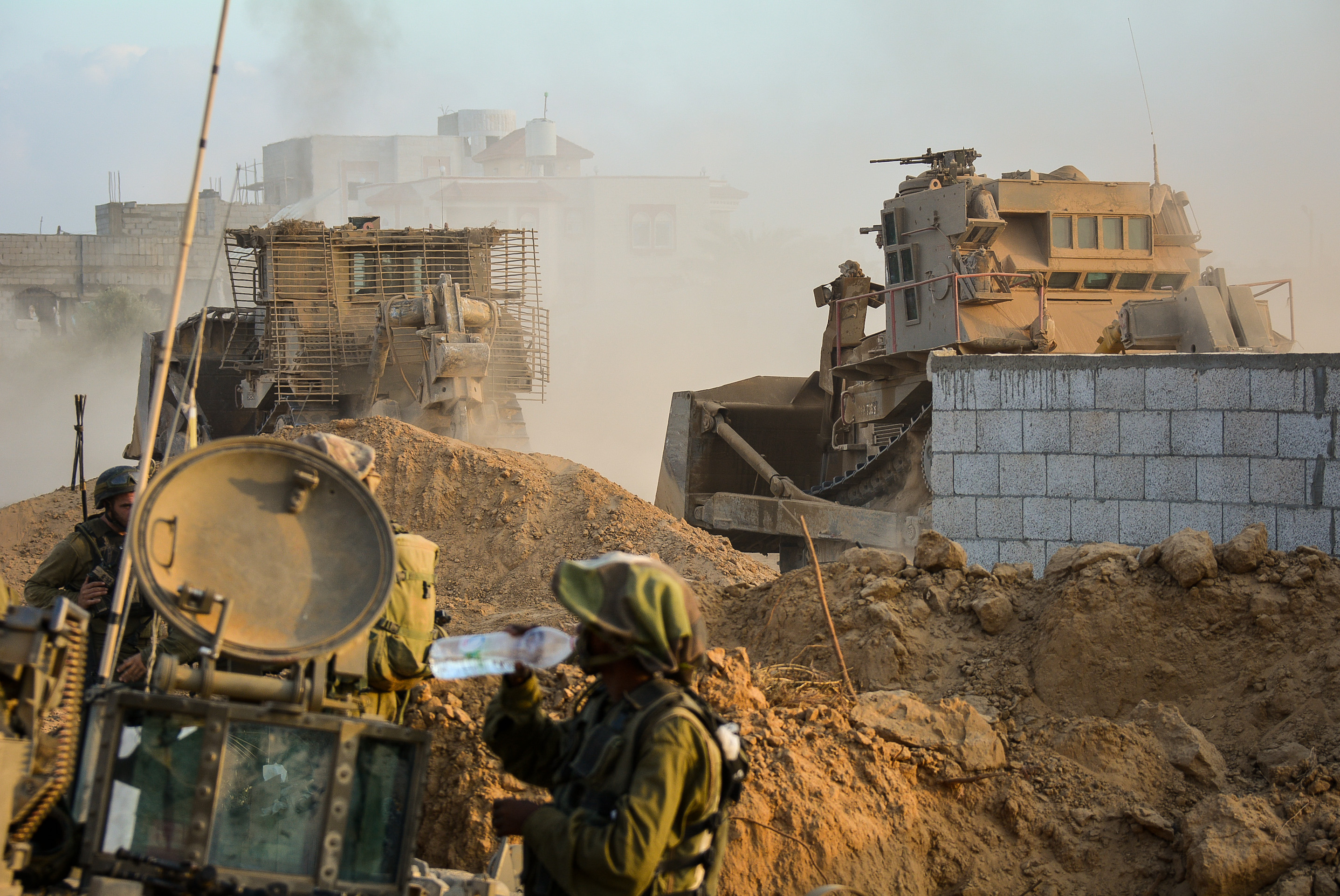 IDF soldiers operating in Gaza during Operation Protective Edge. In the photo: IDF Caterpillar D9R and D9N armored bulldozers.